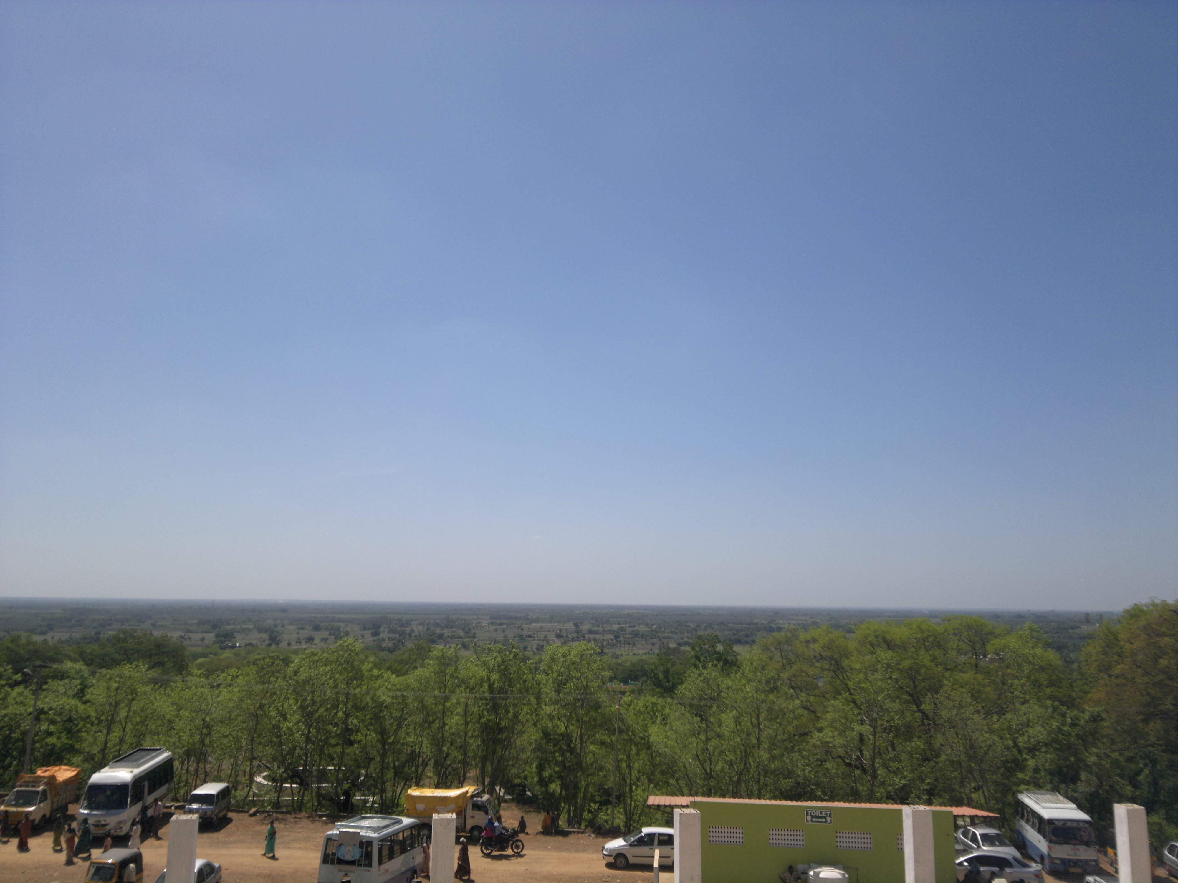 View from the temple